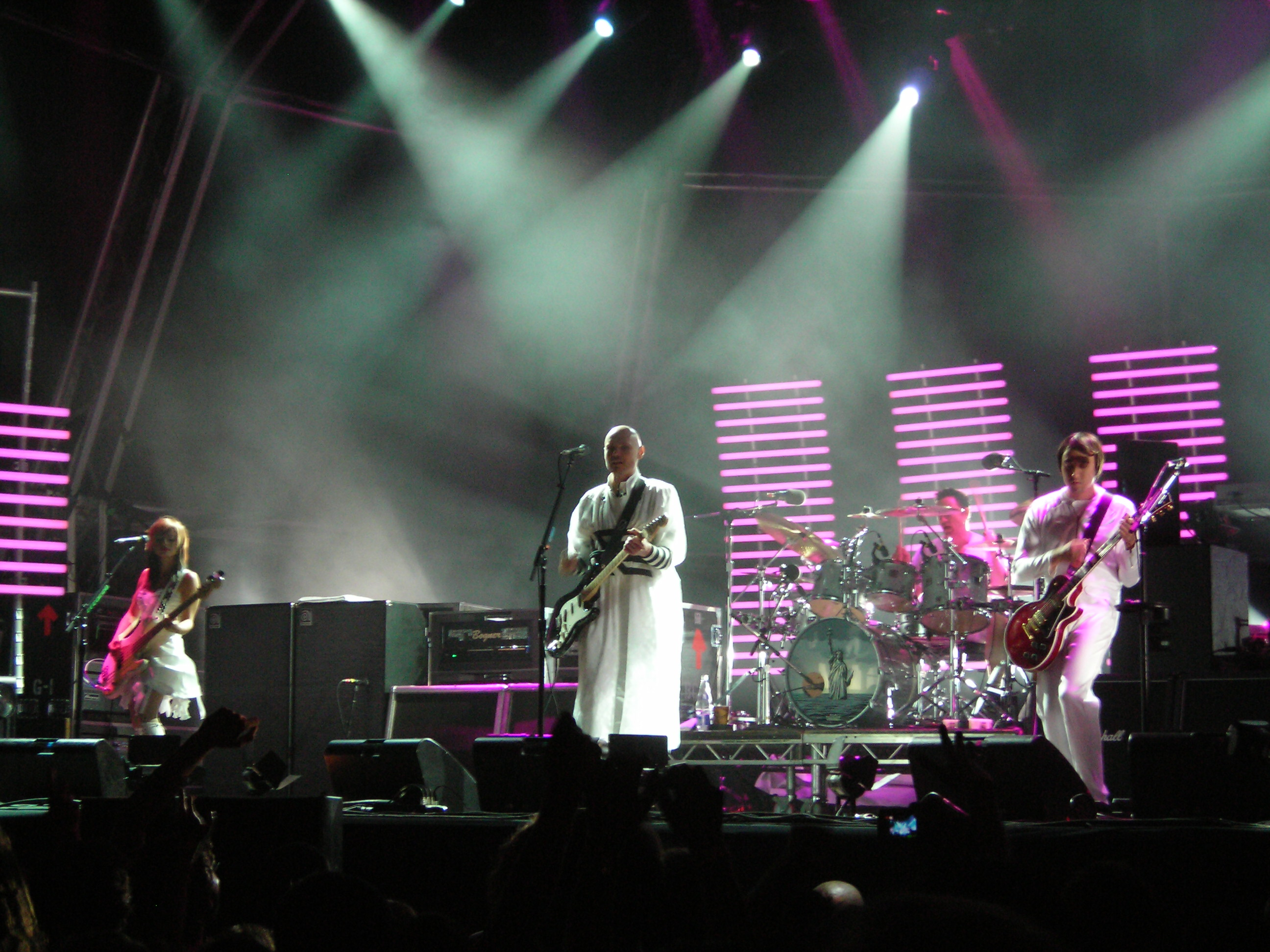 The Smashing Pumpkins no Primavera Sound '07 (Barcelona)